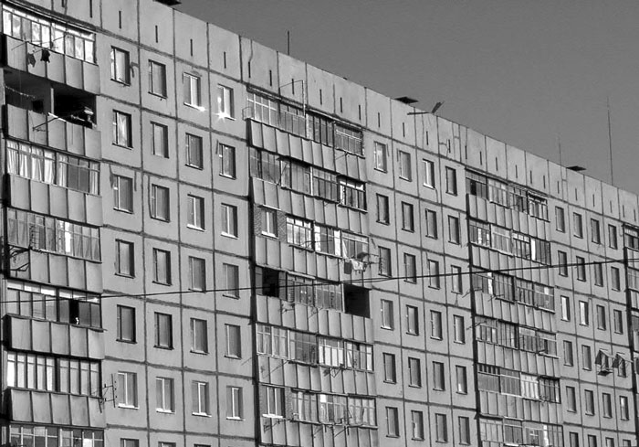 photo